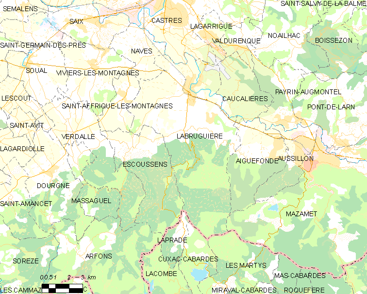 Map commune FR insee code 81120.png - Labruguière